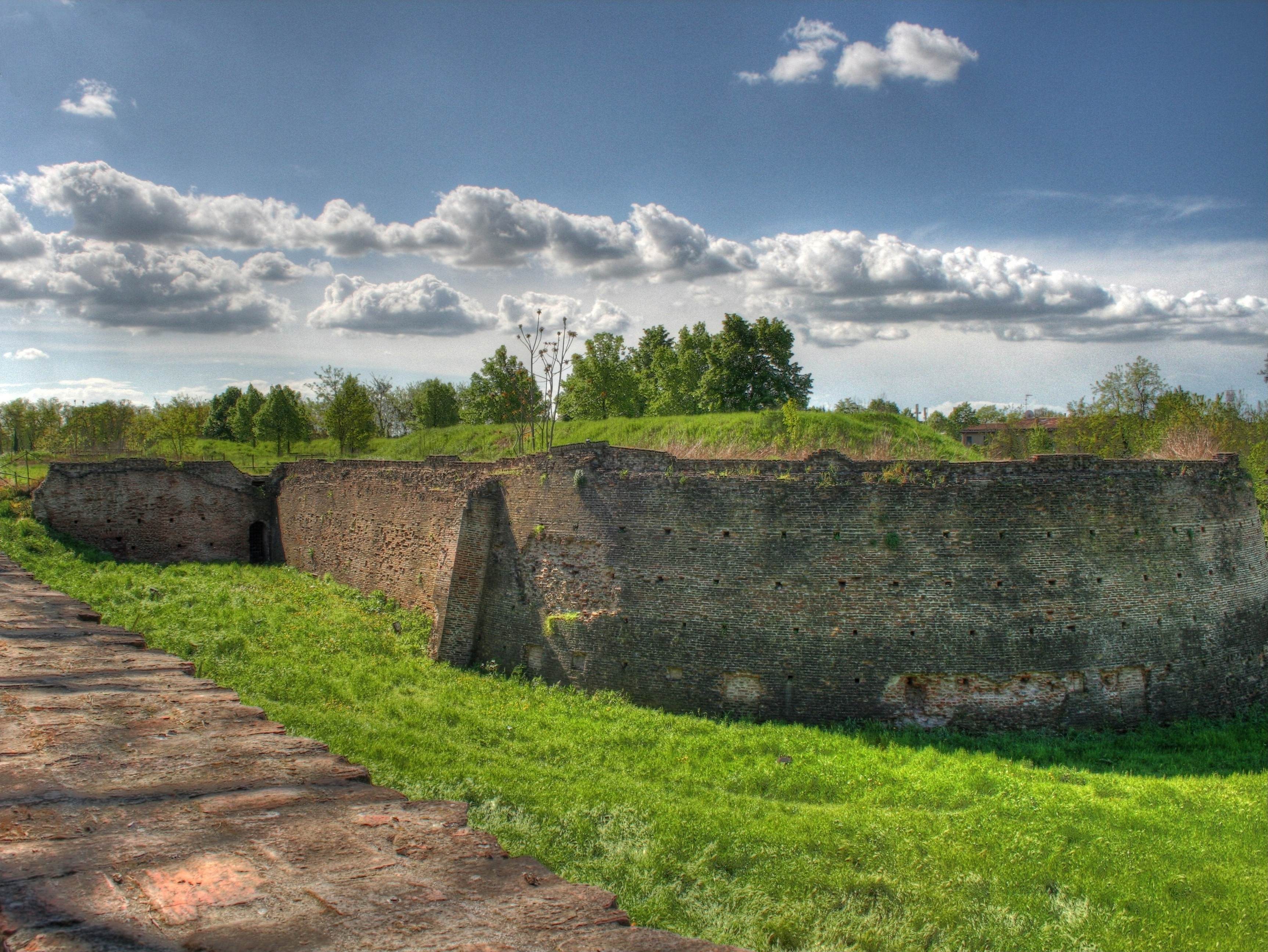 A bastion in Ferrara's ancient walls, Italy.